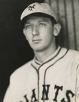 Art McLarney in 1932 as a member of the New York Giants.